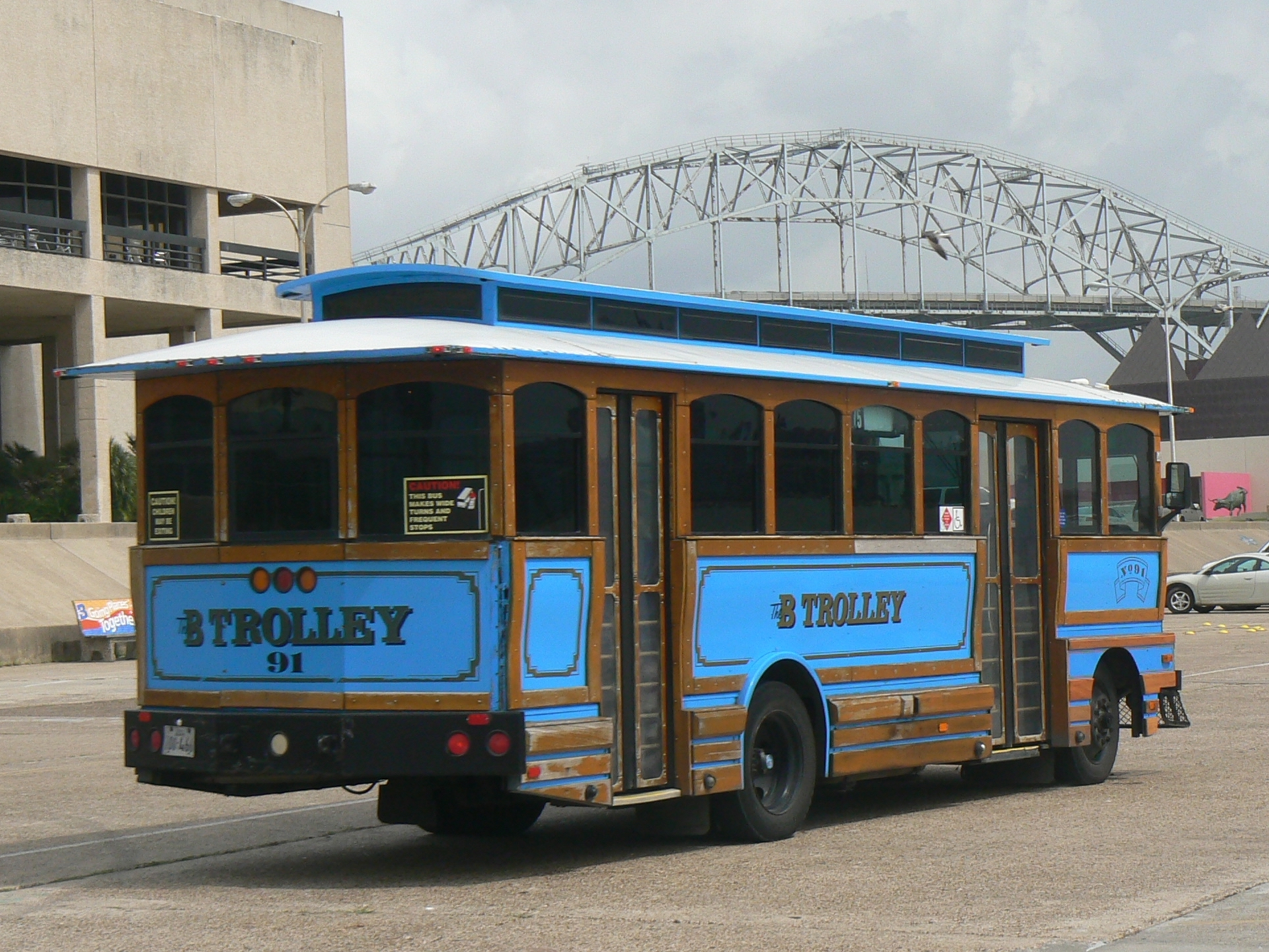 Corpus Christi Regional Transportation Authority blue trolley #91